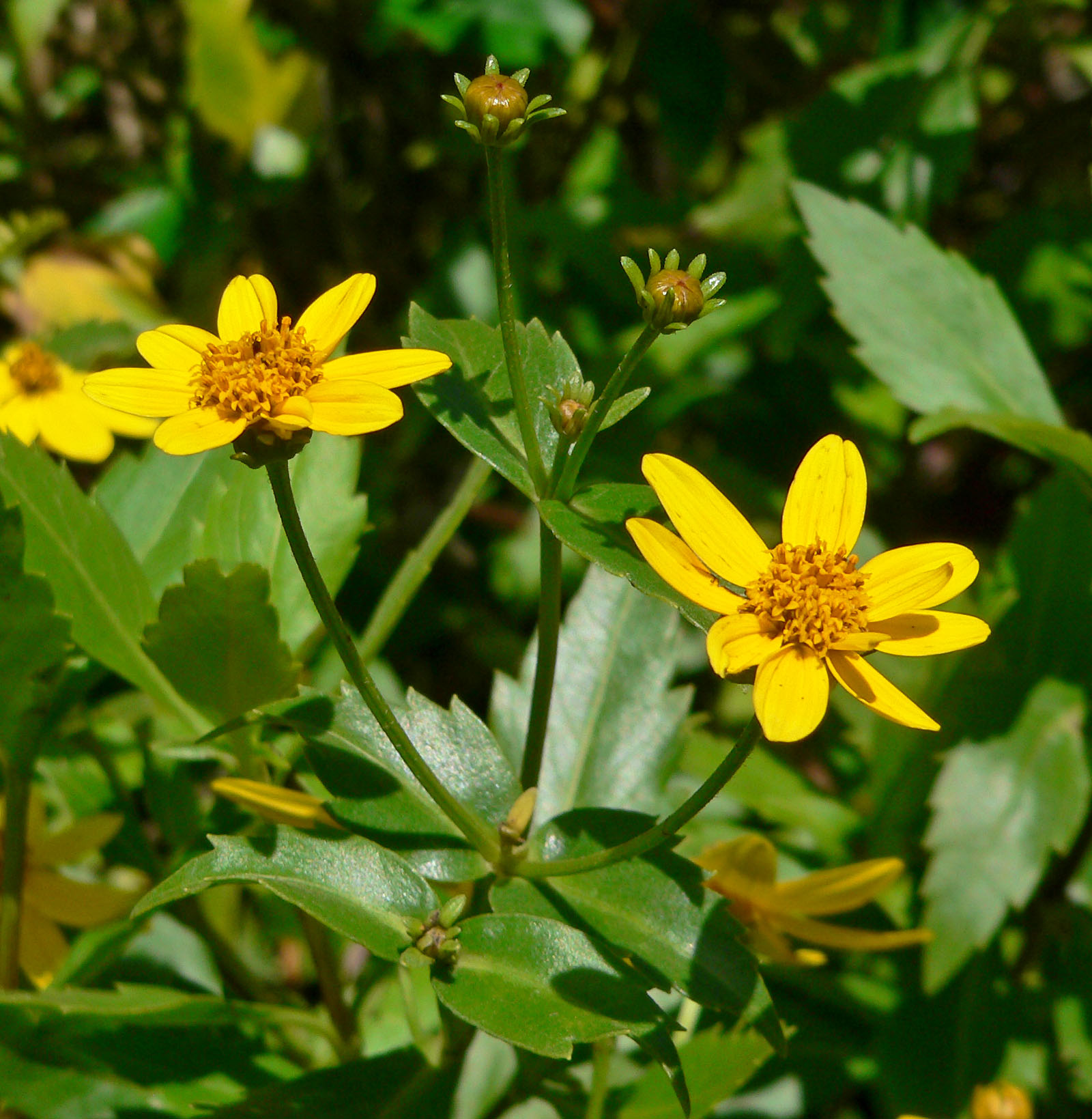 Coreopsis petrophiloides at the San Francisco Botanical Garden